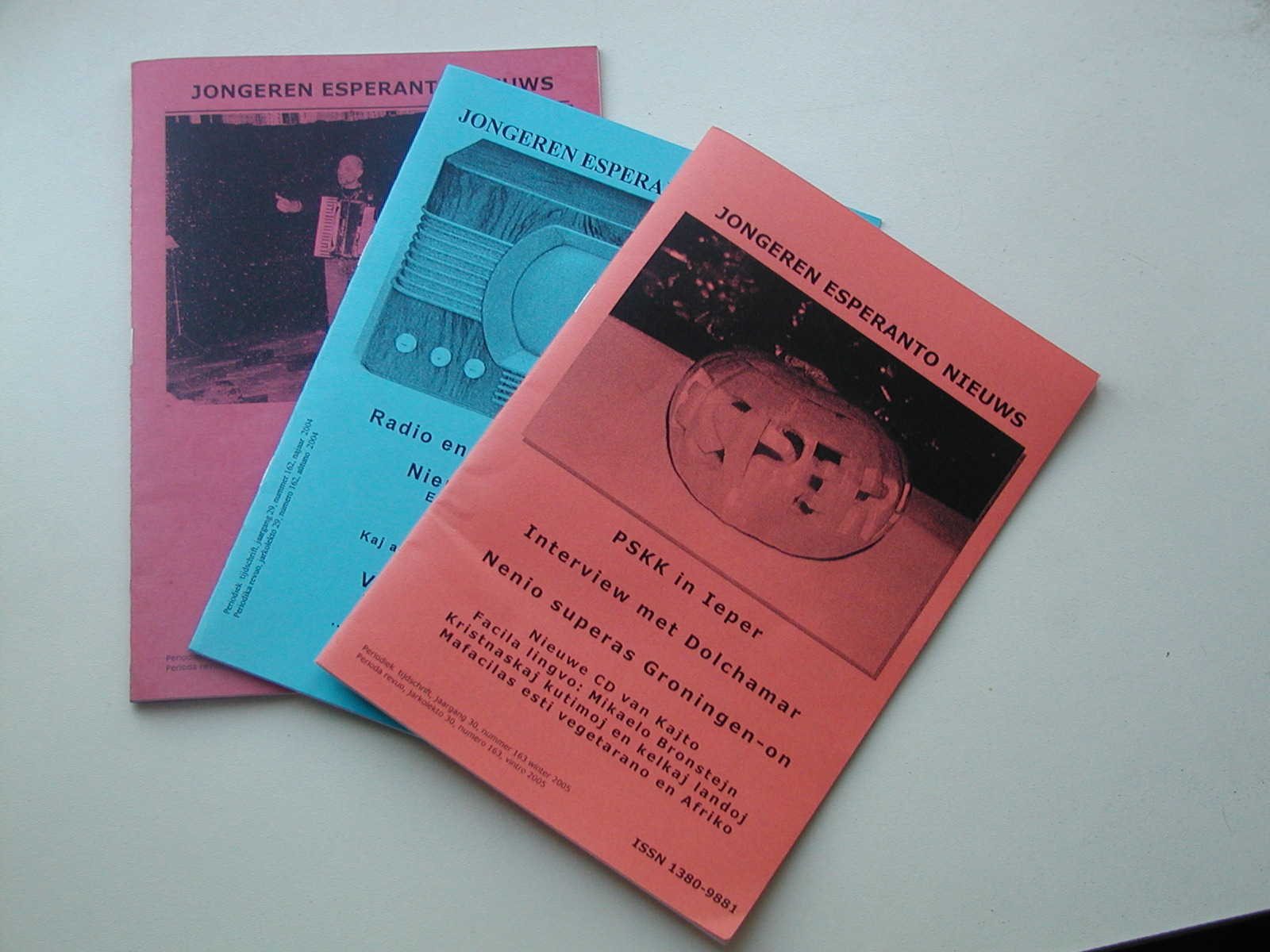 Jongeren Esperanto Nieuws, revuo por nederlandlingvaj junuloj kiuj interesiĝas pri Esperanto / a magazine for Dutch speaking youngsters that are interested in Esperanto